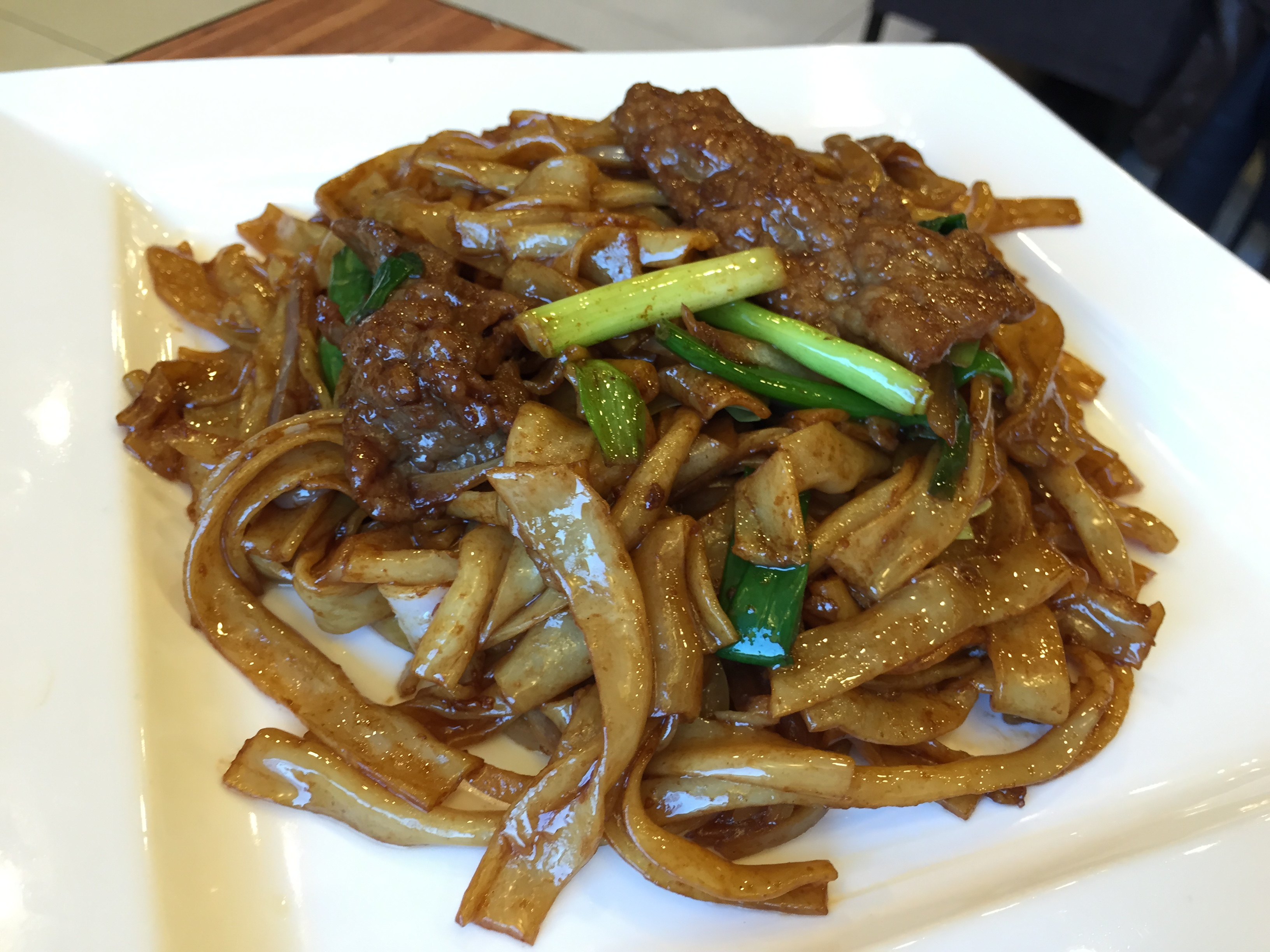 A Cantonese classic sold in Beijing.